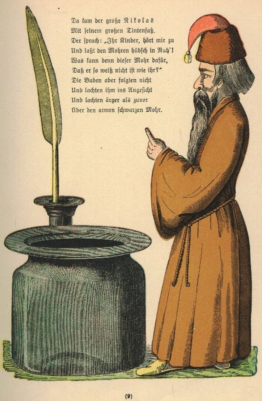 A story which calls Struwelpeter.